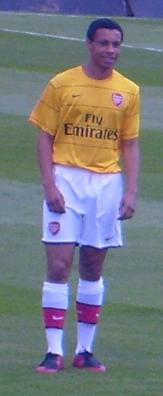 Coquelin warming for a pre-season friendly with Barnet FC